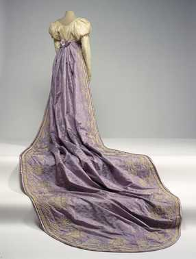 Court train or Manteau de Cour. Lavender moire silk with ivory velvet, embroidered with ivory chenille and pearly beads, silk satin lining.